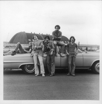 A Promotional image taken of the Bizarros in the late 1970s